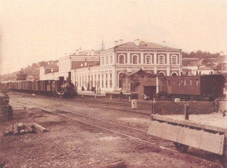 Vladimir railway station. Early XXth century. Viev from the tracks (south-eastern side)